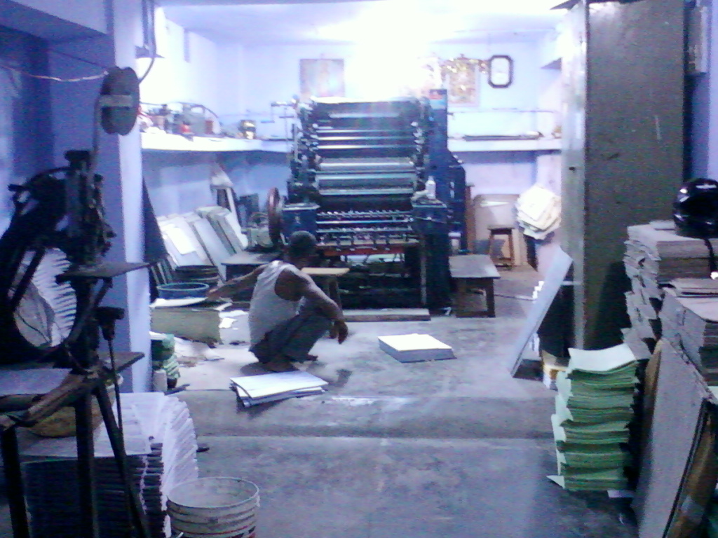 A Photograph of Carbon Factory situated at Shivpuri